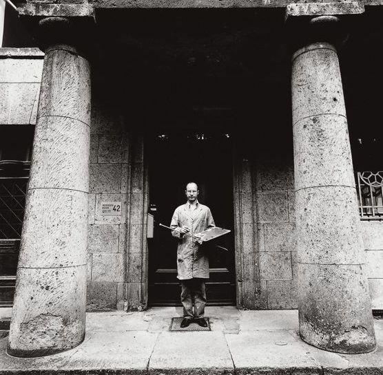 Konrad Klapheck portraied by Lothar Wolleh